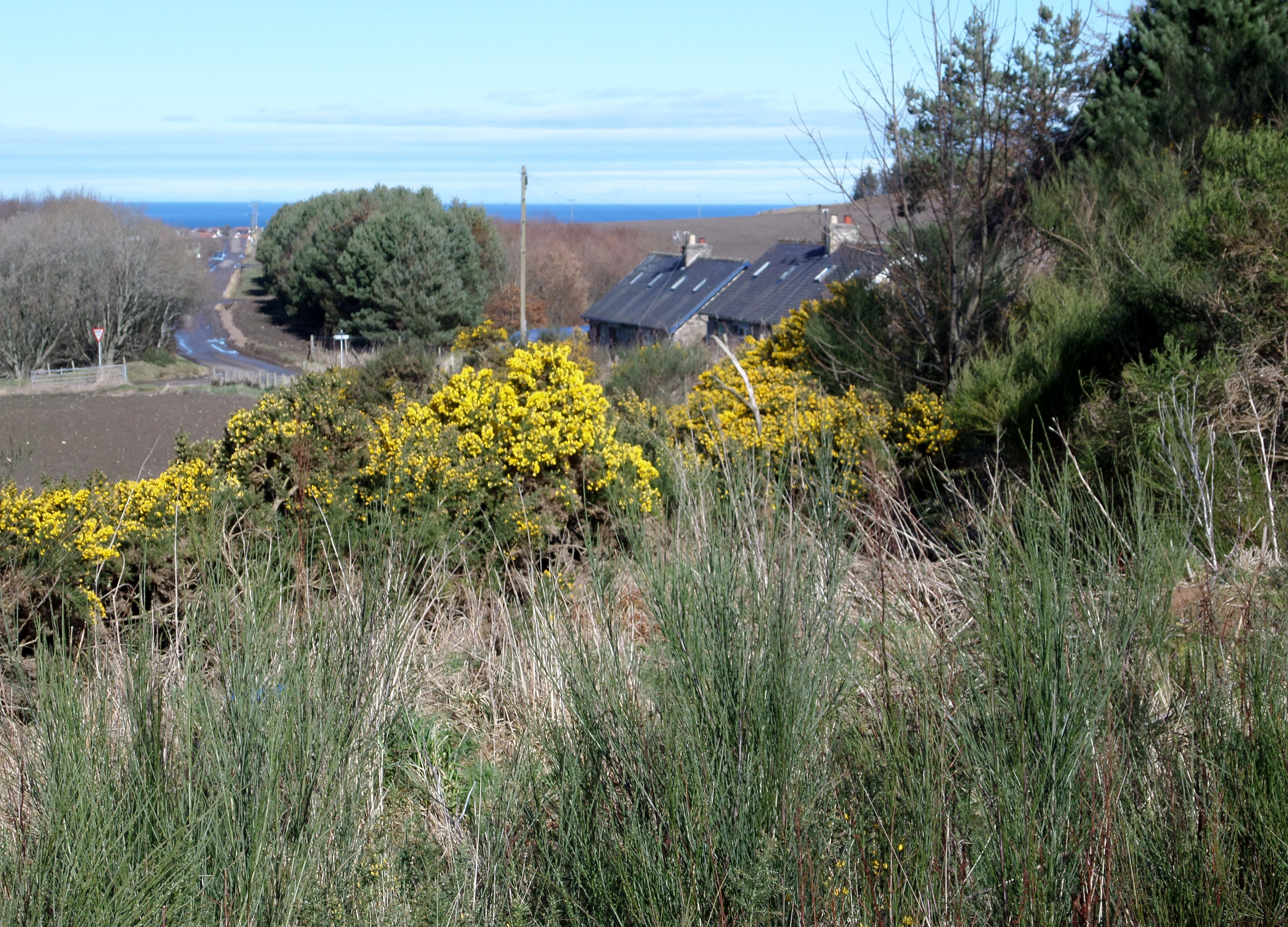 Cottages viewed from the site of old Drybridge (Letterfourie) railway station, Rathven, Moray, Scotland.